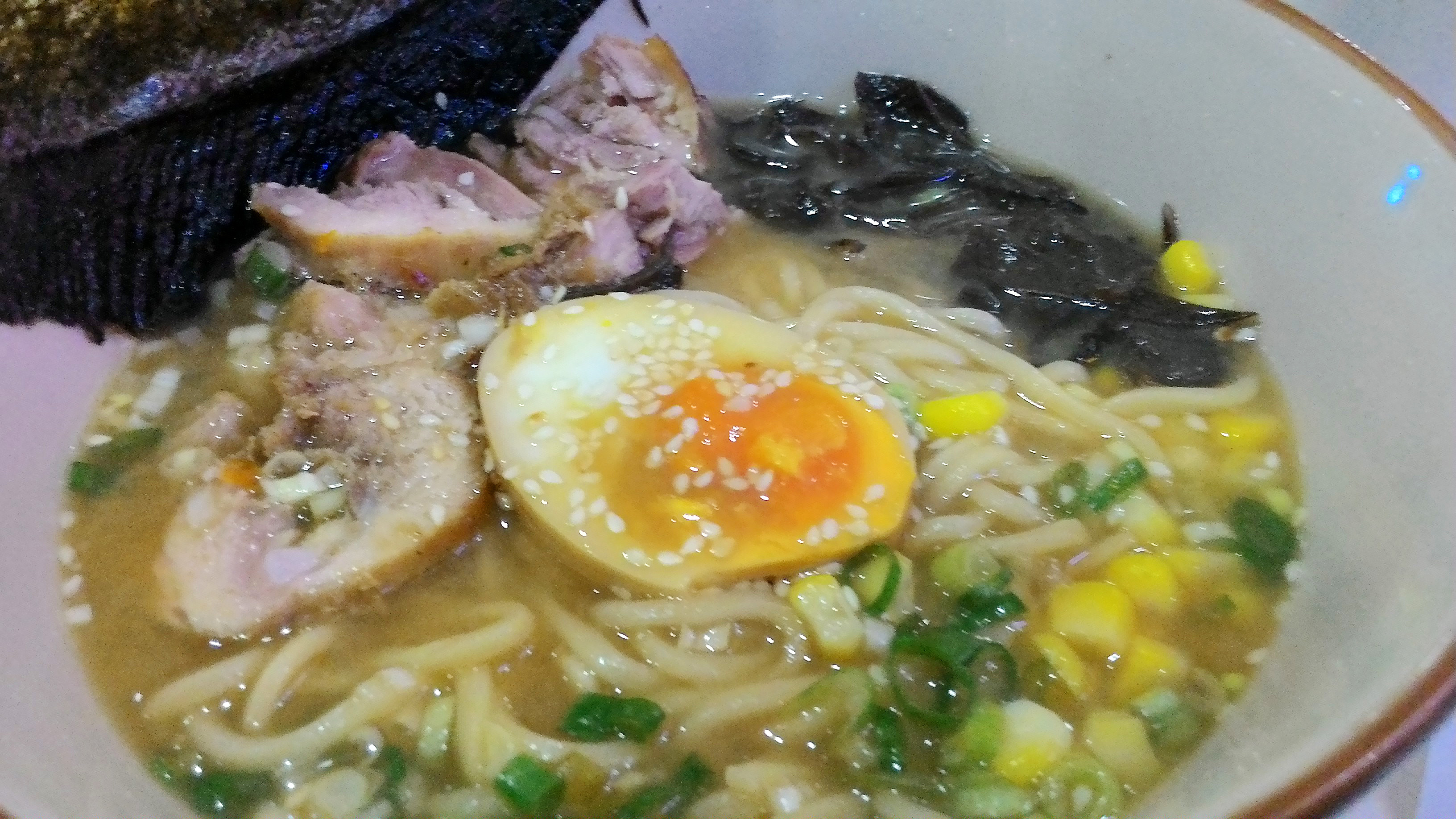 Miso Chicken Ramen in Tori Ramen restaurant, Sarinah, Thamrin, Central Jakarta, Indonesia.